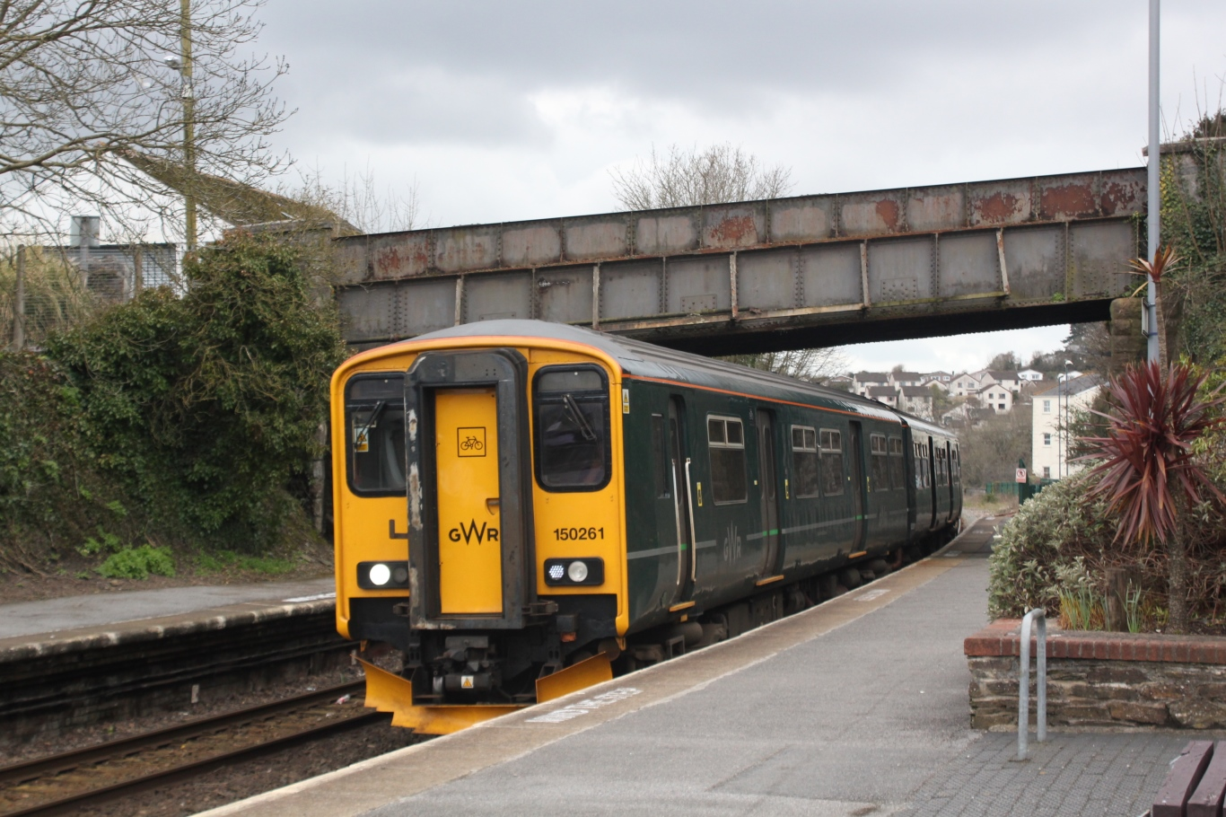 150261 arrives at Saltash with a Great Western Railway local service from Penzance to Plymouth.